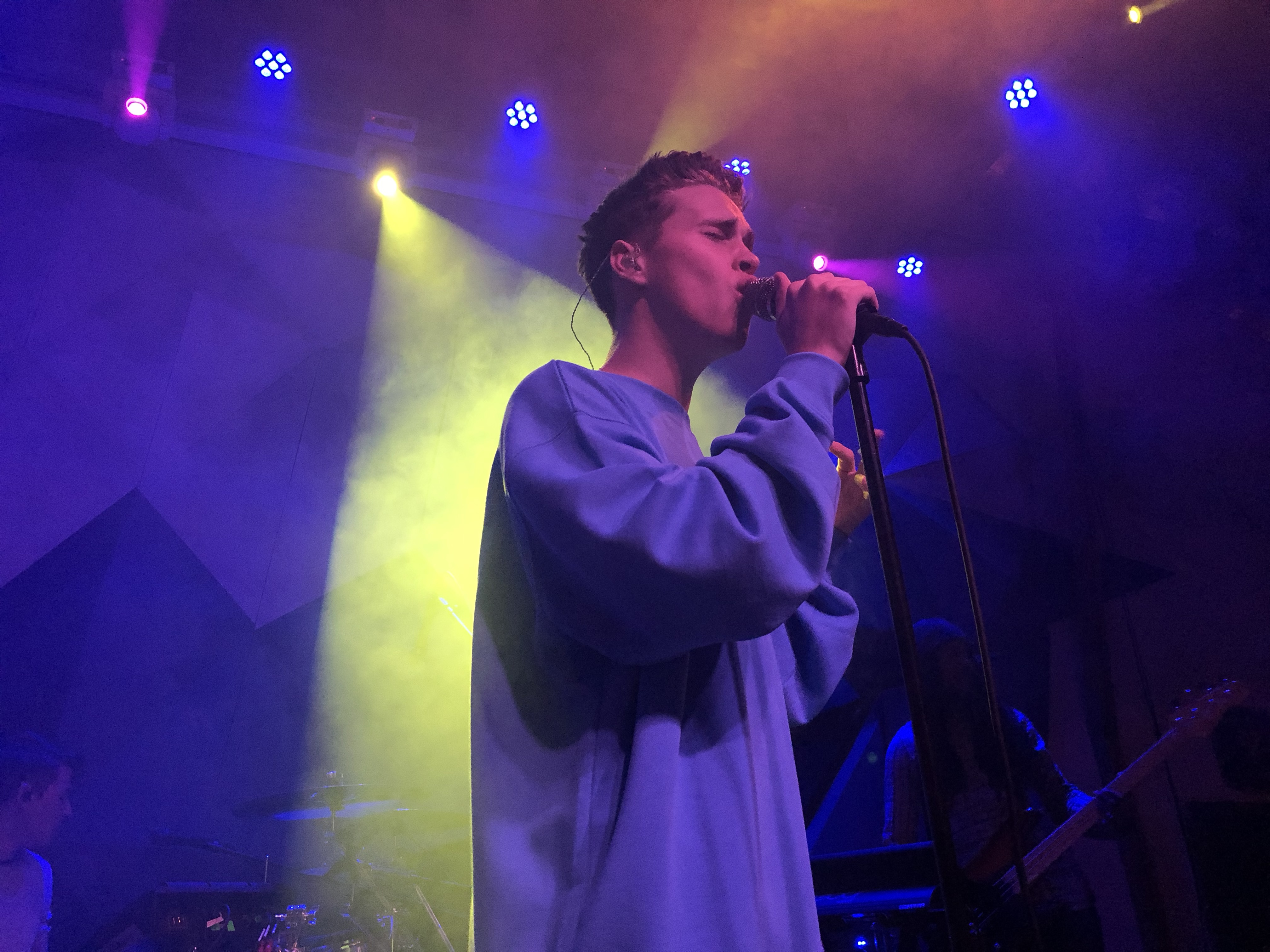 Beatty performing at the Holecene Lounge in Portland Oregon, on March 12th 2019.